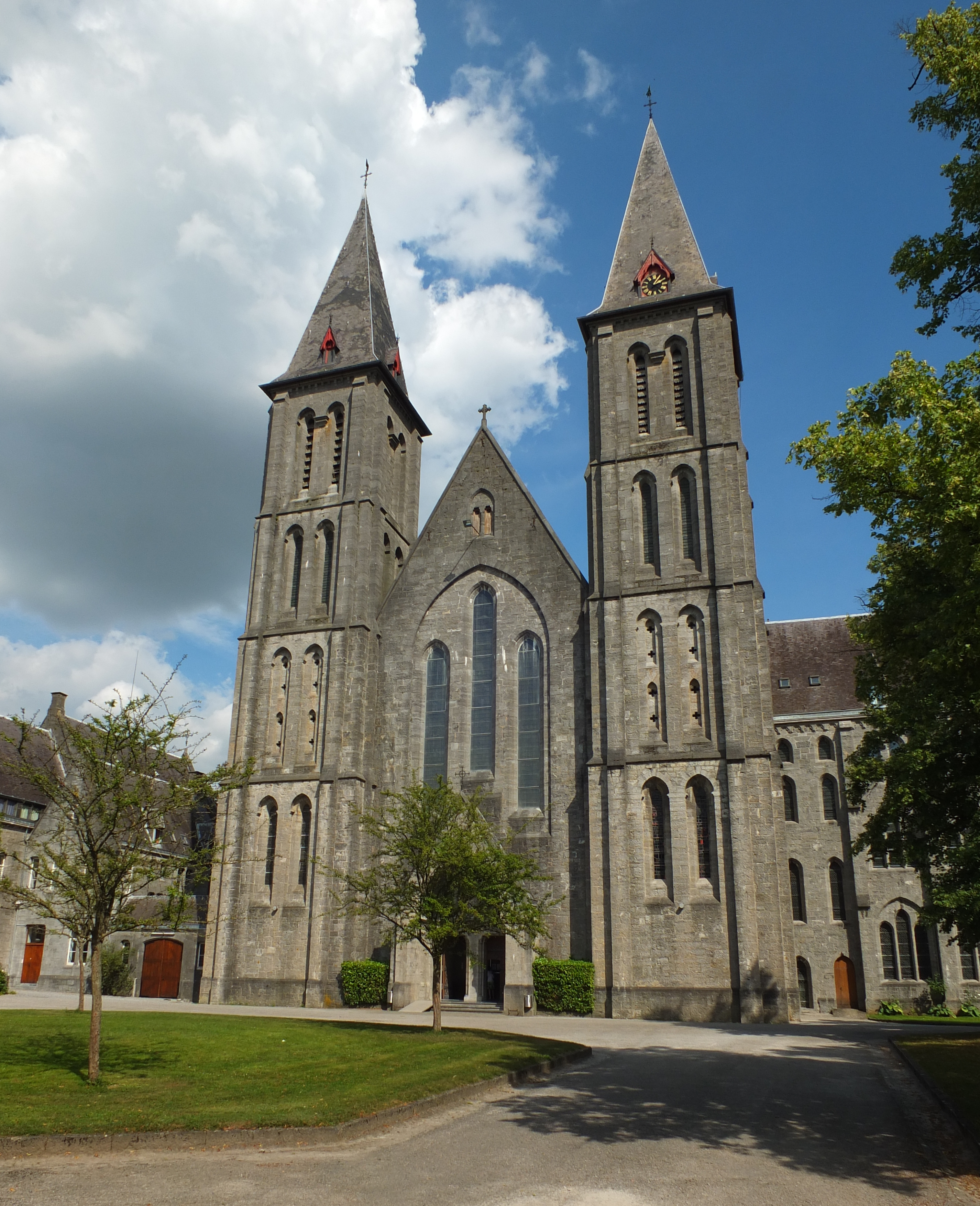 The church of Maredsous Abbey in Denée (Anhée), Namur, Wallonia, Belgium. De kerk is een bedevaartsoord ter ere van de Heilige Benedictus.